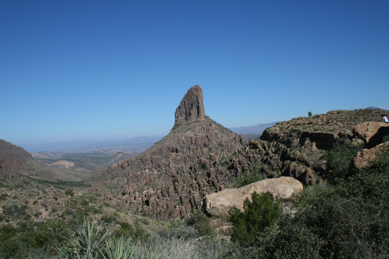 Photograph of Weaver's Needle in the Superstition Wilderness.